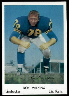 A 1959 promotional image of Los Angeles Rams player Roy Wilkins.